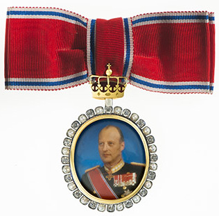 Foto: Jan Haug, Det kongelige hoff